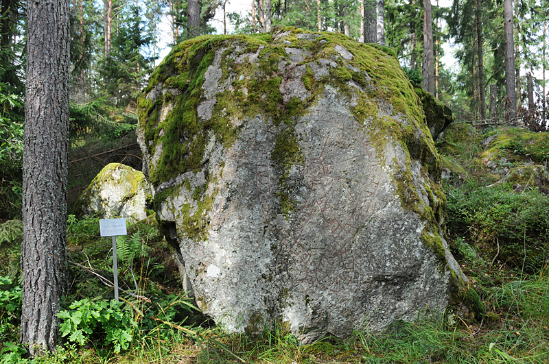 Runestone Sö 2 in Axala.